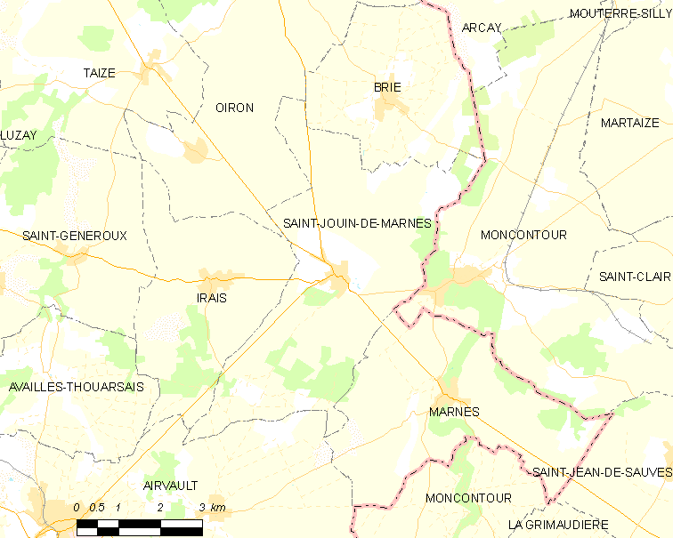 Map of French municipality Saint-Jouin-de-Marnes